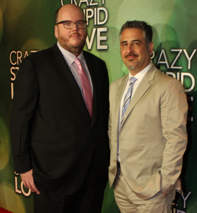 John Requa and Glenn Ficarra at the Sydney, Australia premiere for Crazy, Stupid, Love..